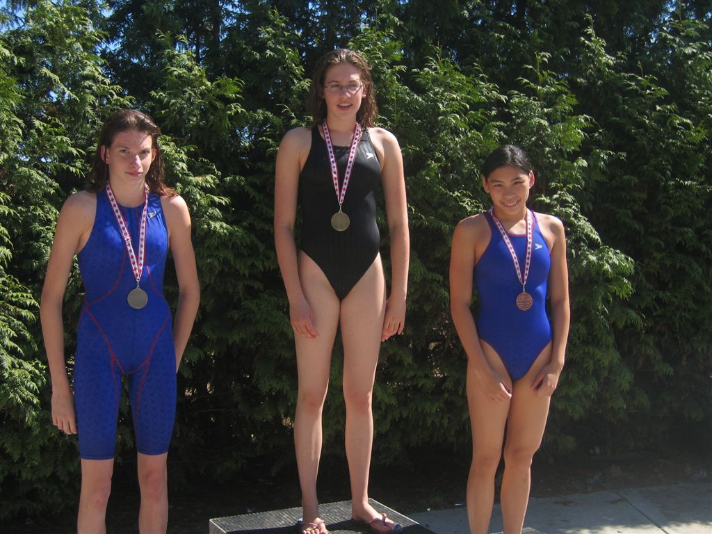 "BC Provincials 2005 - Swimming 021" Three young women standing wearing swimsuits with medals around their necks.